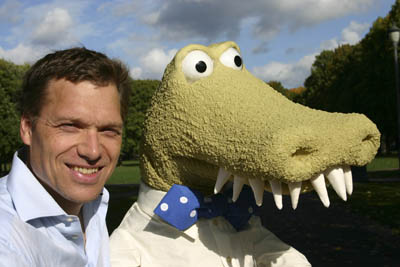 Norwegian author Henrik Hovland with crocodile puppet Johannes Jensen the main caracter of two of his books